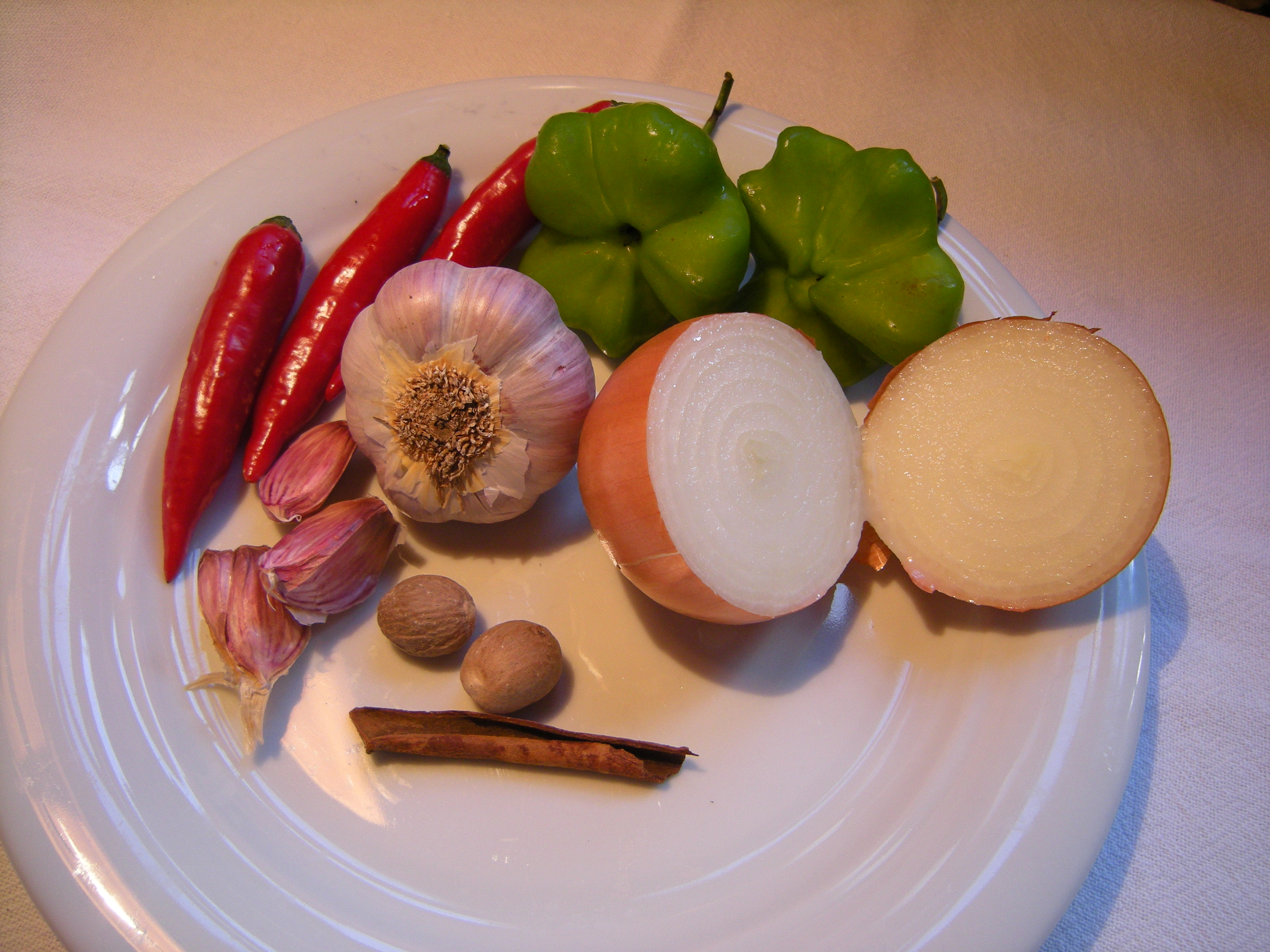 multiple condiments on a white plate.